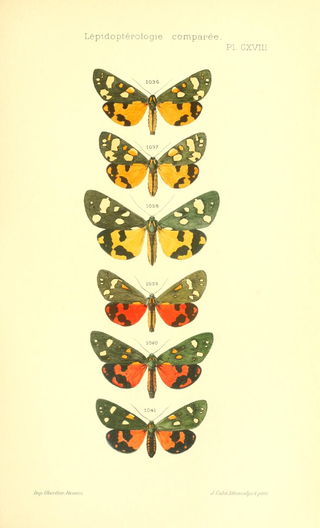 Scarlet Tiger Moth variation, upperside.1036: Nominate subspecies, lutescens form from near Corbeil-Essonnes (France), male1037: Nominate subspecies, lutescens form from near Corbeil-Essonnes (France), female1038: Caucasus subspecies1039: Nominate subspecies, typical form from the Paris region (France)1040: Intergrade between nominate and Southern Alps subspecies from Fusio (Lavizzara, Ticino, Switzerland)1041: Southern Alps subspecies from Northern Italy